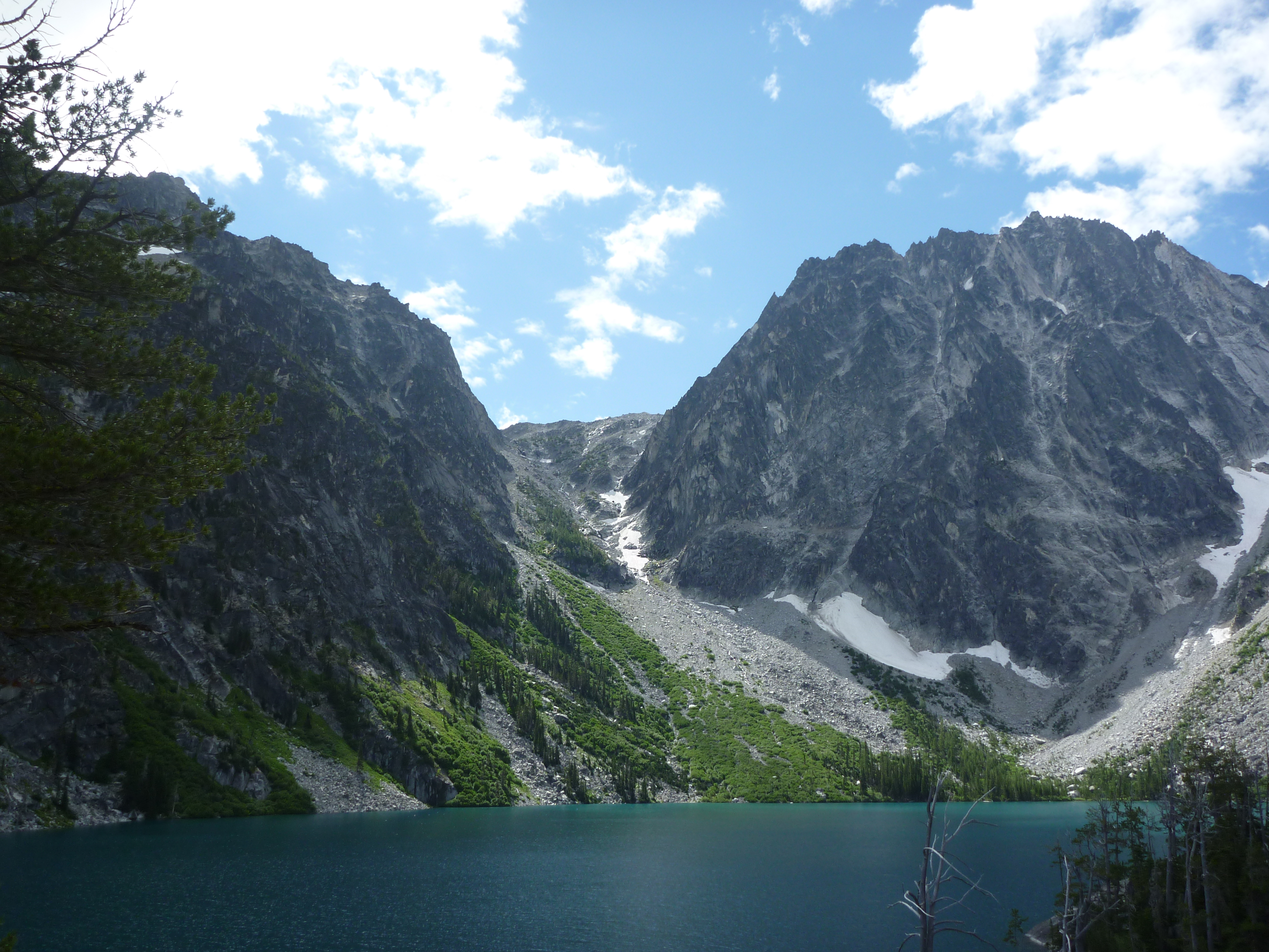 Aasgard Pass (center) and Dragontail Peak (right) above Colchuck Lake